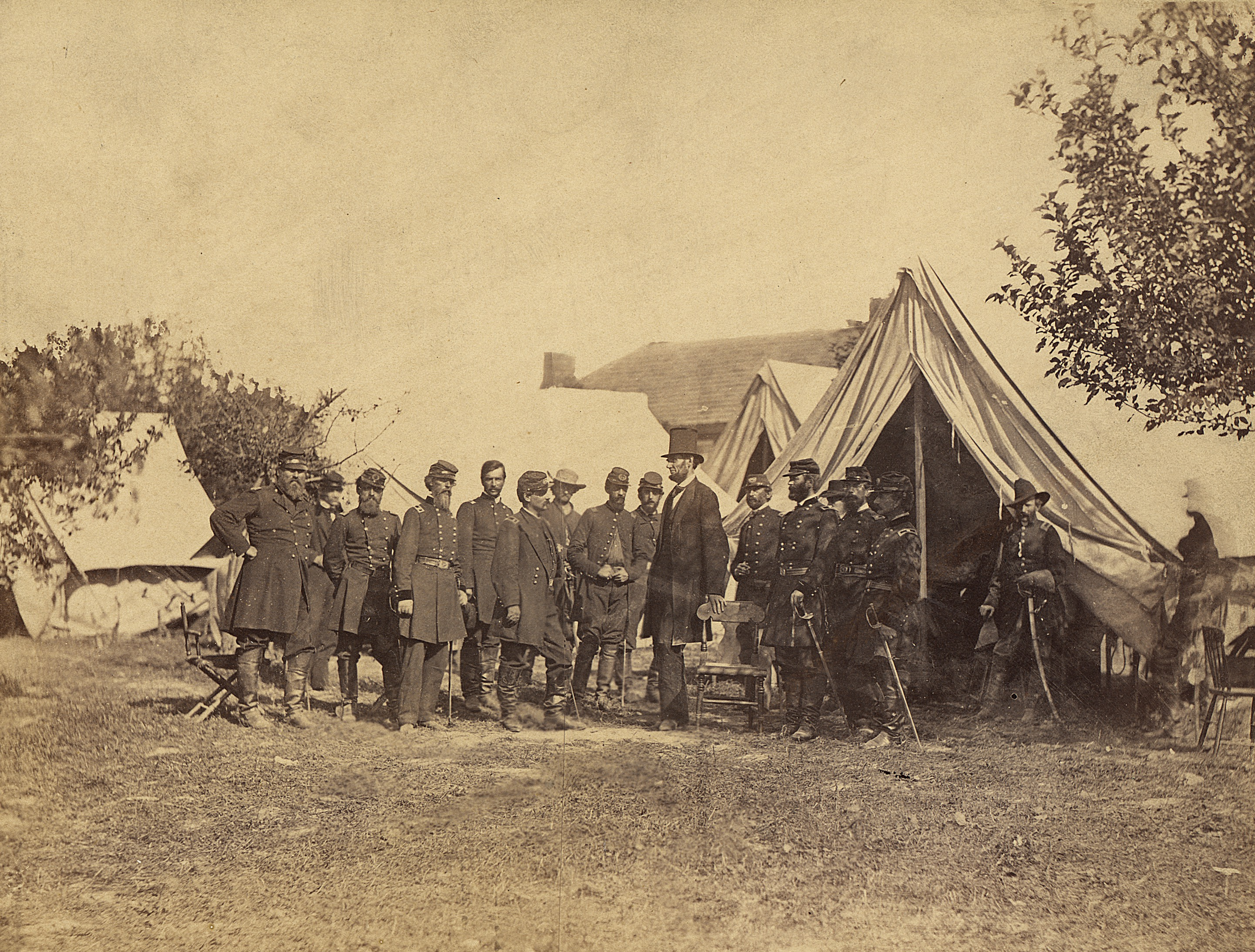 General notes: Use War and Conflict Number 119 when ordering a reproduction or requesting information about this image.